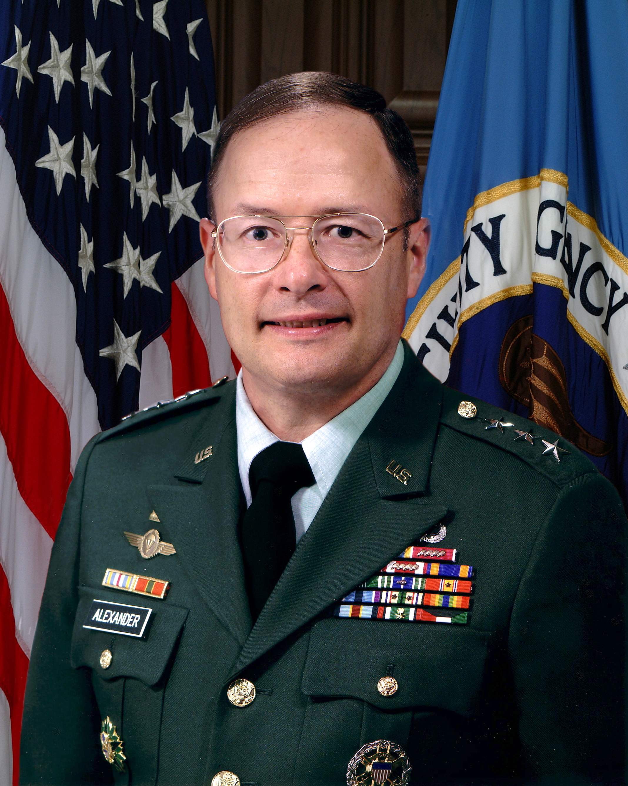 LTG Keith Alexander, director of the National Security Agency (NSA).